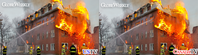 A sample of Simultaneous Substitution.